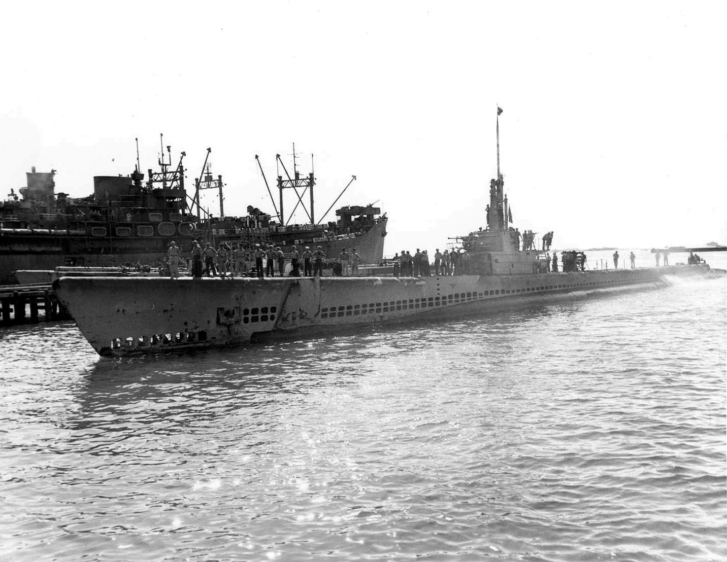 U.S. Navy photo courtesy of and NavSource Online: Submarine Photo Archive